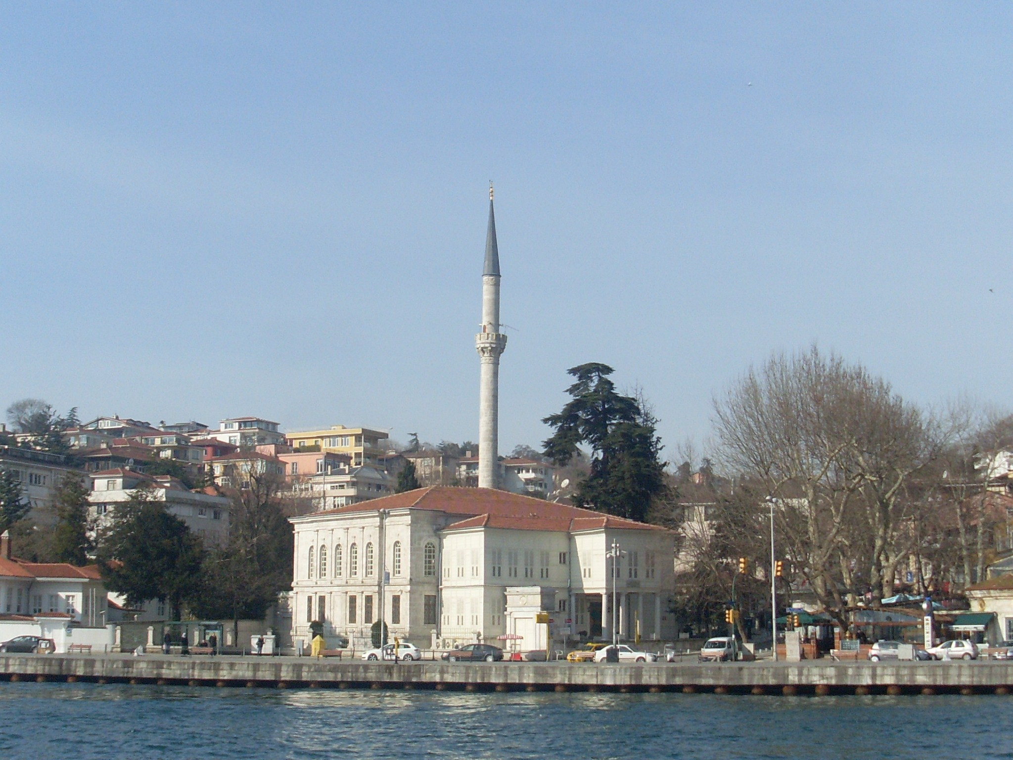 İstanbul - Emirgan Hamid-i Evvel Mosque 3 - Şub 2013